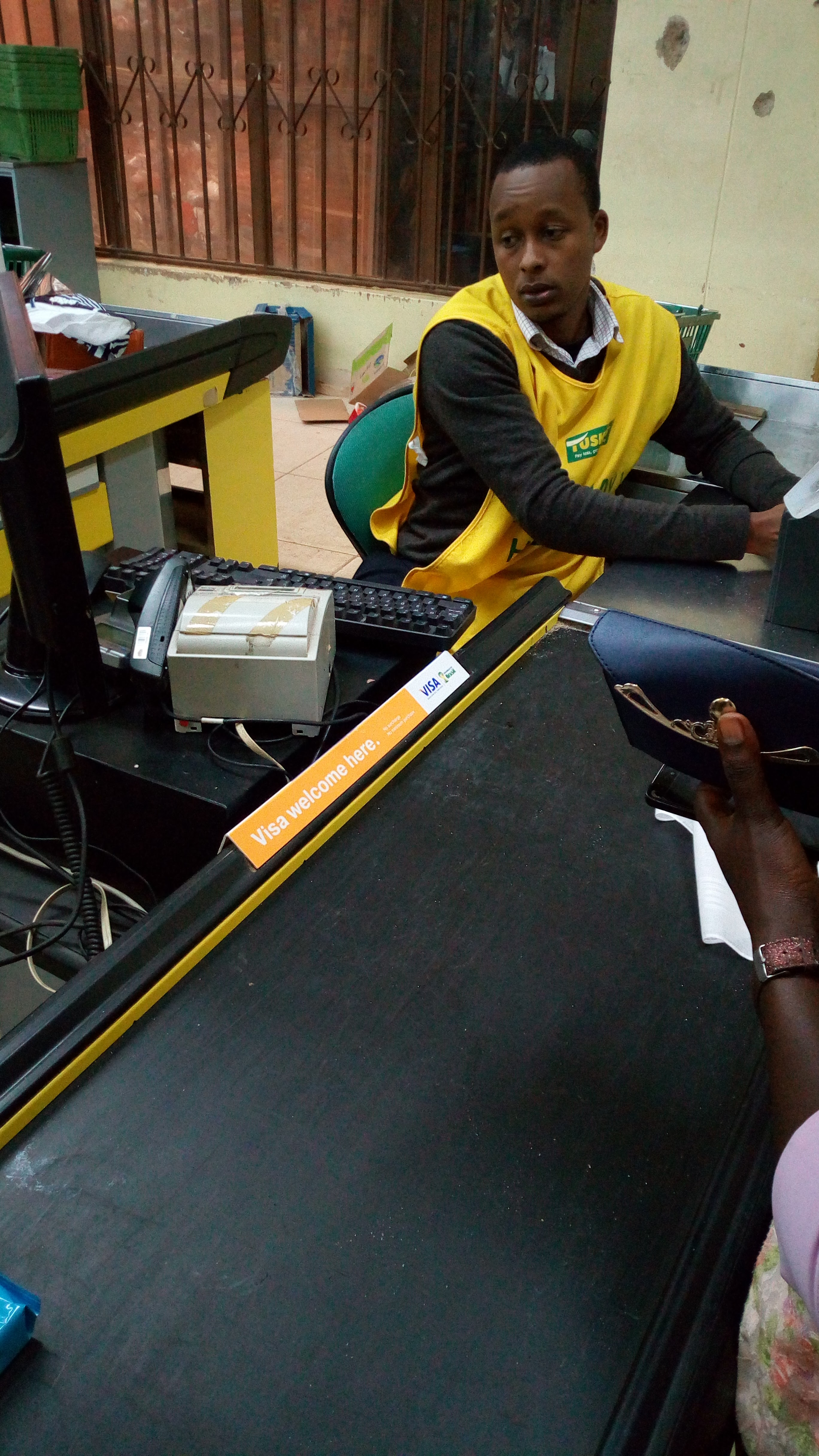 Teller at a supermarket. a teller at a poplar supermarket This is an image of "African people at work" from Kenya